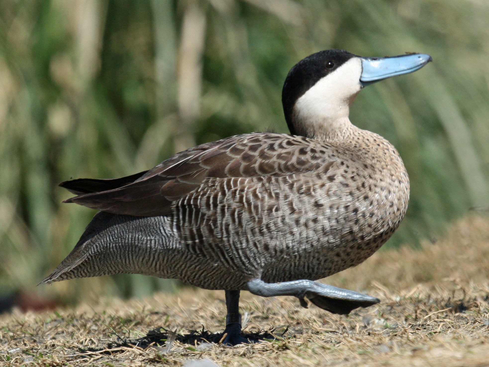 Puna Teal (Anas puna) at Sylvan Heights Waterfowl Park in Scotland Neck, North Carolina.